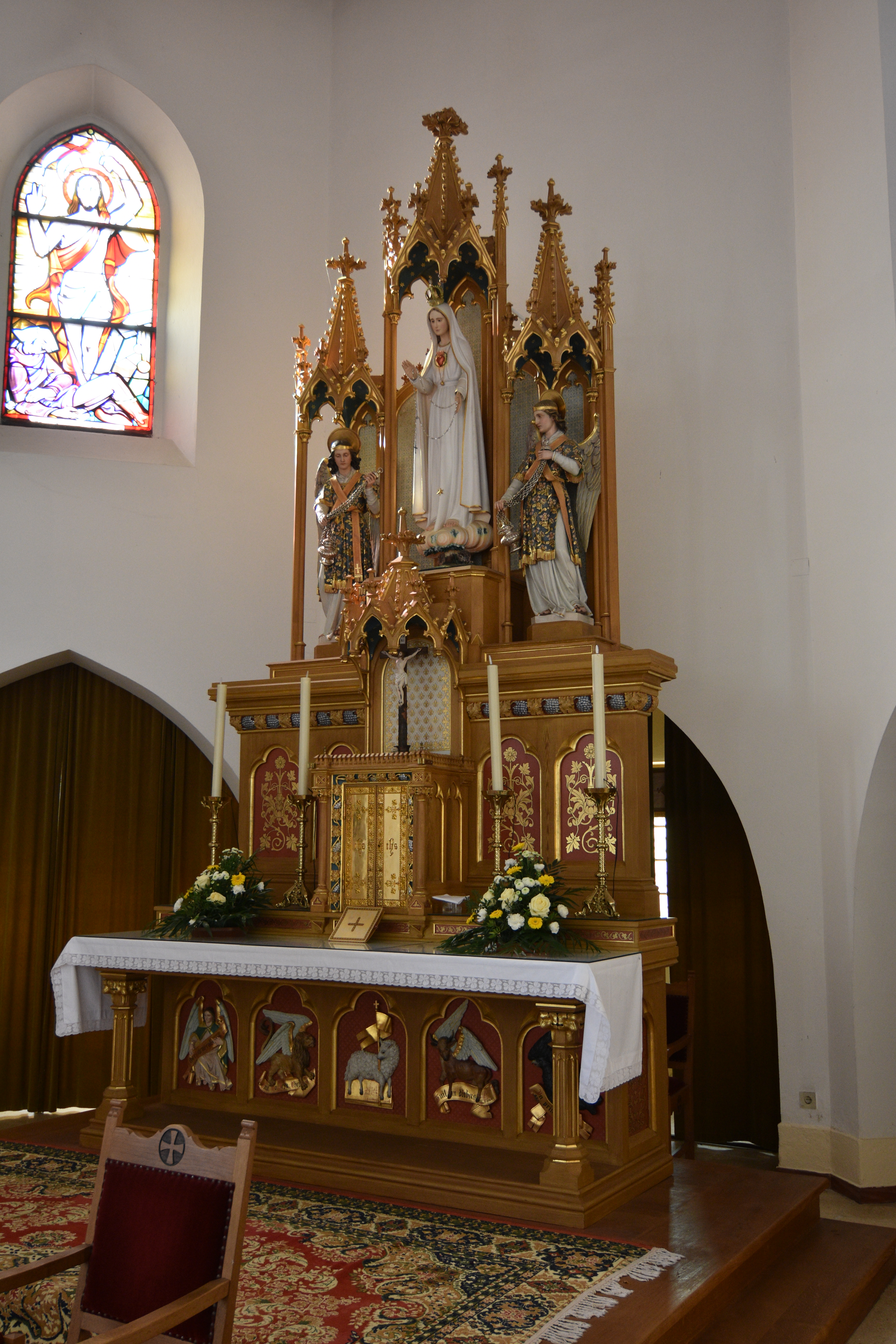 Church Deutsch Schützen - Interior, the altar originates from the Vinzentinerinnenkonvent Graz